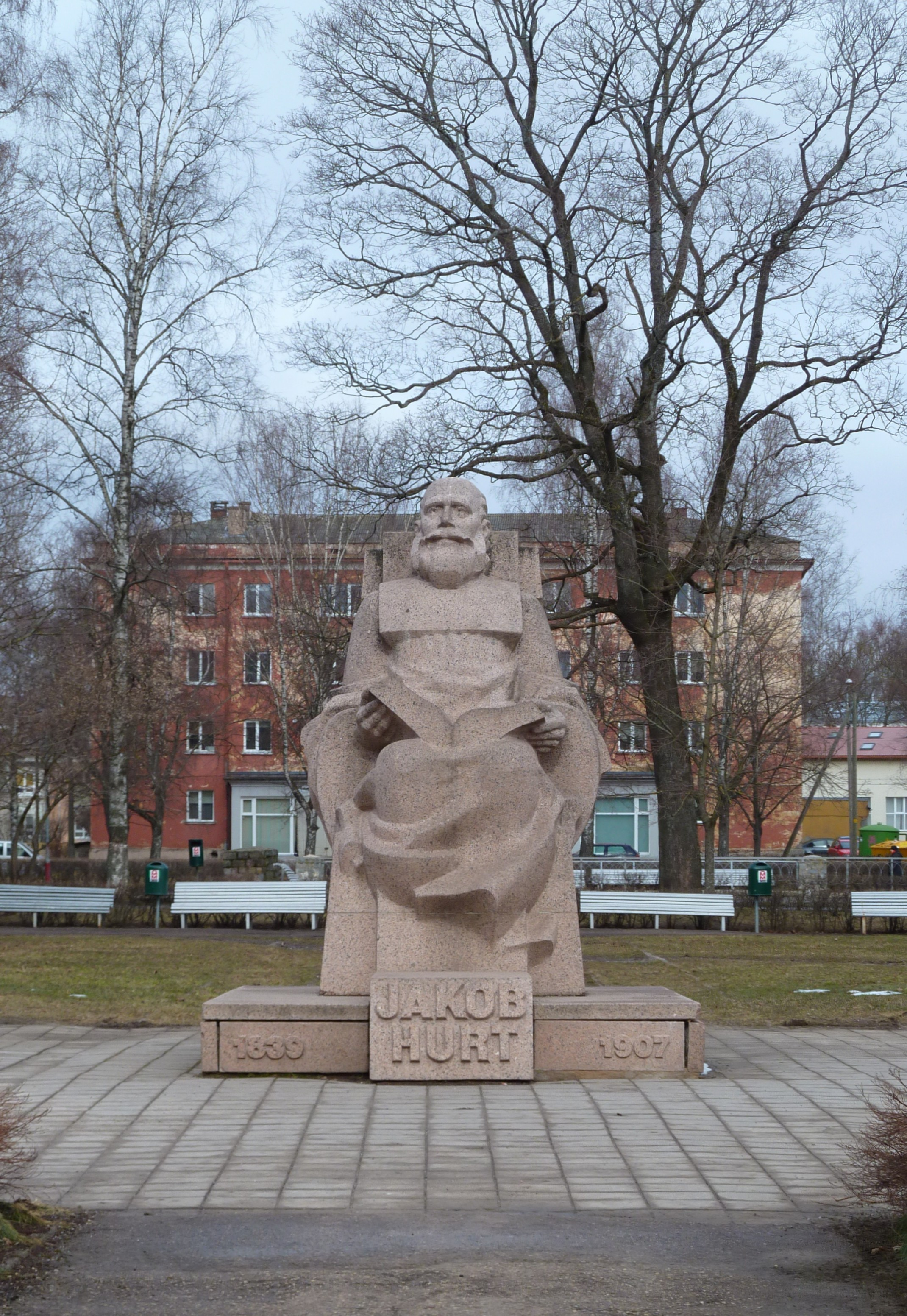 Monument of Jakob Hurt (1839-1907) in Tartu, Estonia, Vanemuine street